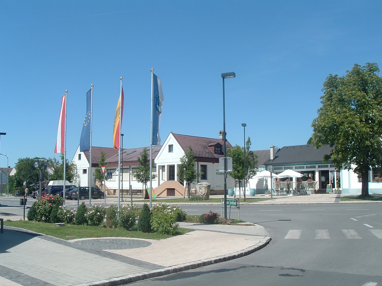 Illmitz, Austria